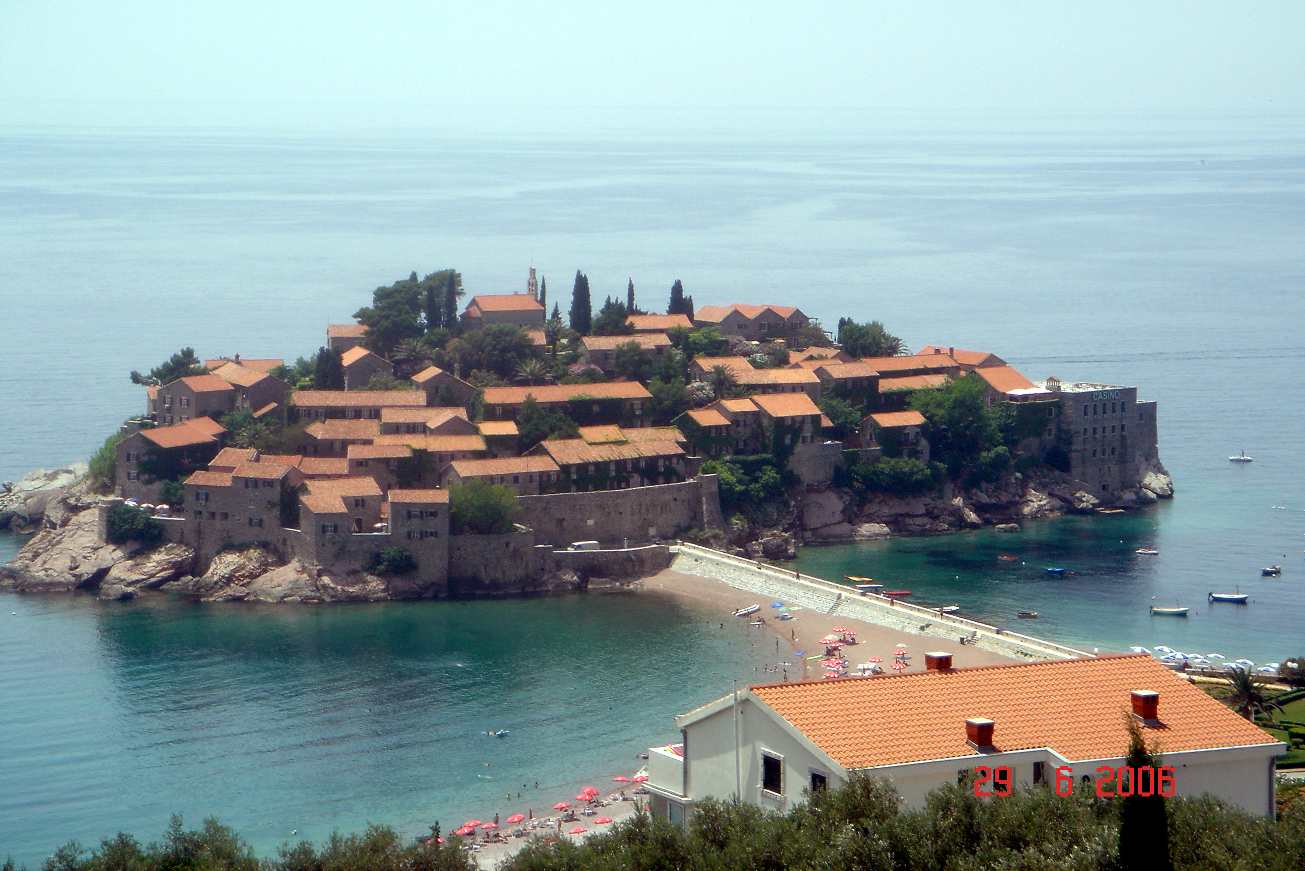 Montenegrinian island of Sveti Stefan